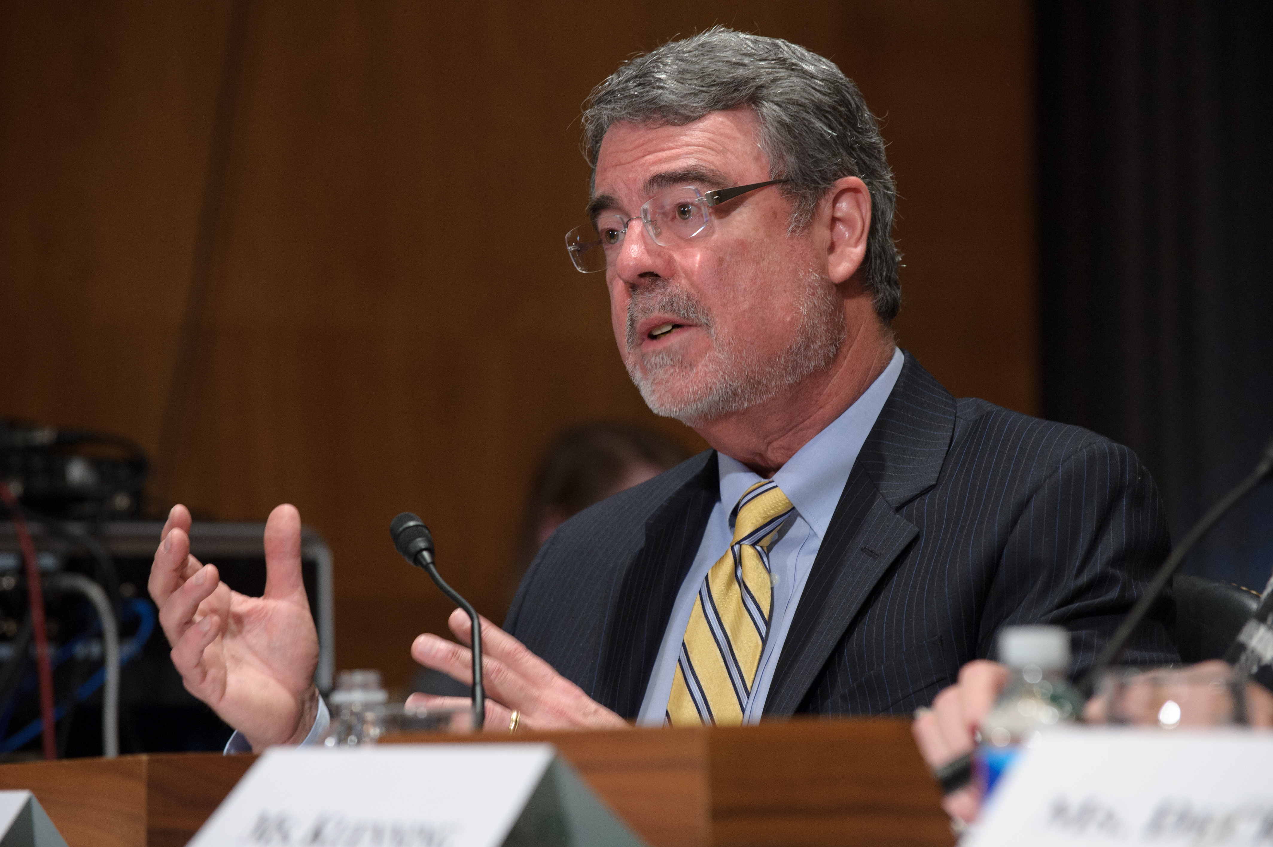 Dr. Mullan testifying in front of Congress